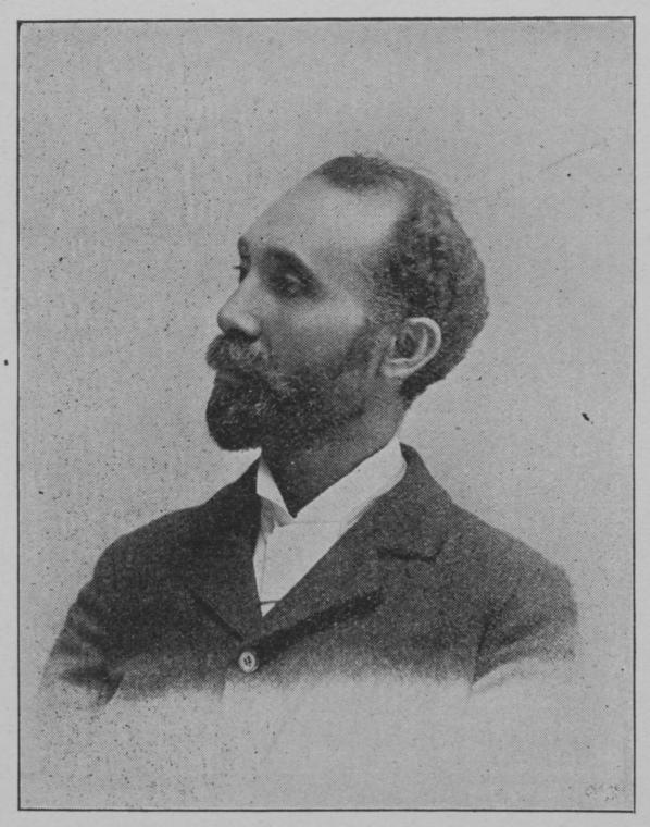 Photo of Barnett from 1900.